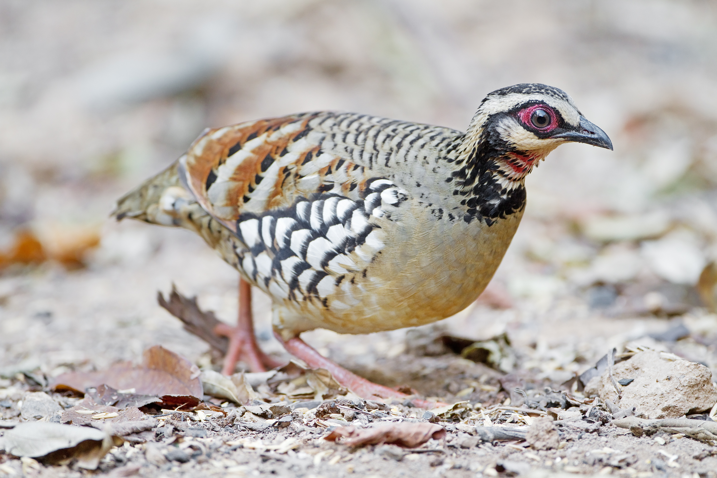 Bar-Backed Partridge (Arborophila brunneopectus) male, Song Phi Nong, Kaeng Krachan, Phetchaburi, Thailand